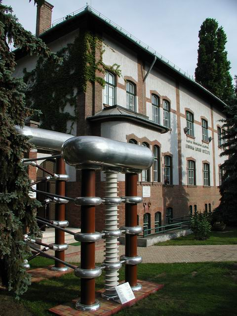 ATOMKI main entrance, with the old cascade accelerator.